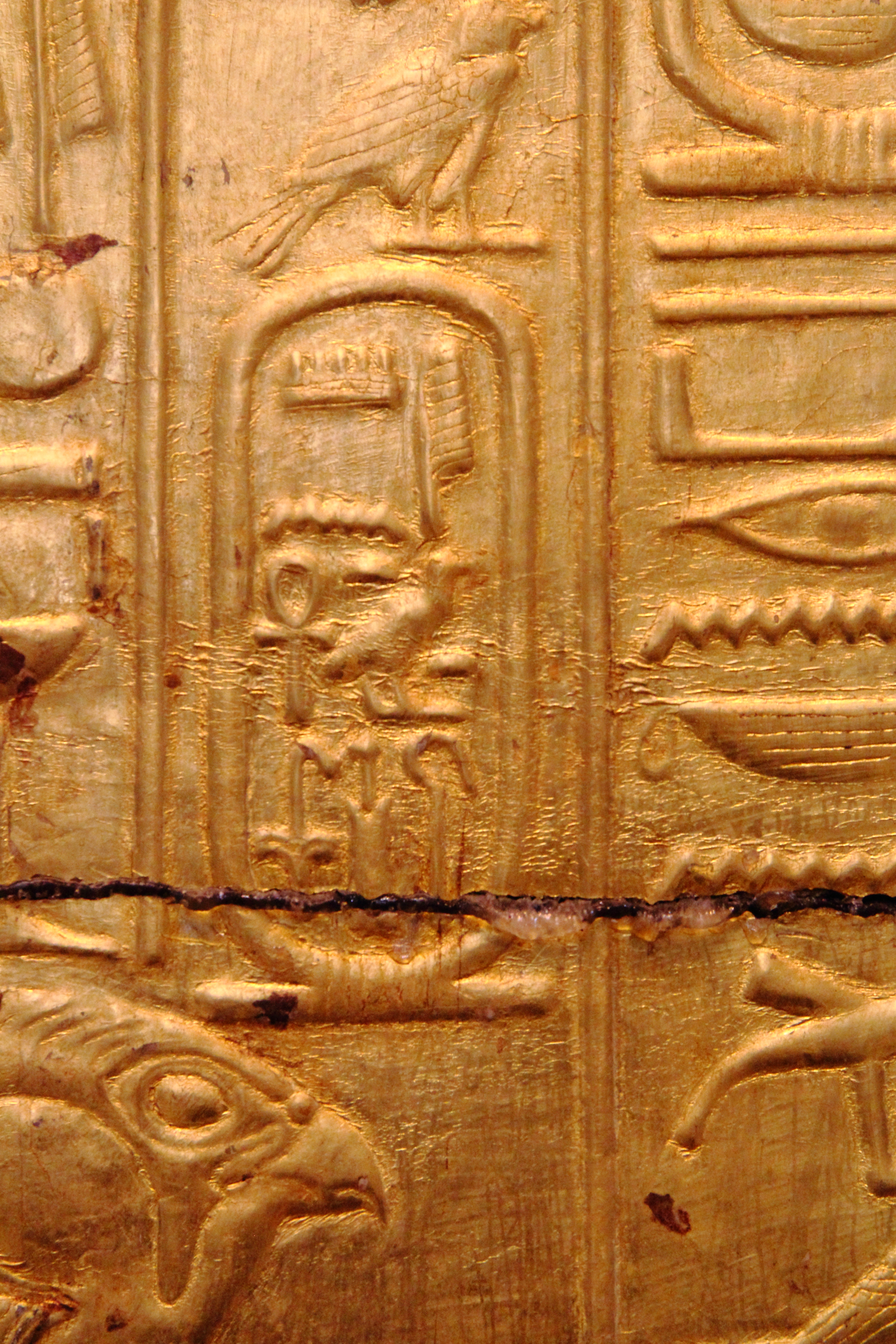 Egyptian Museum, Cairo: Material from the tomb treasure of king Tutankhamun, 18th dynasty, New Kingdom of Egypt